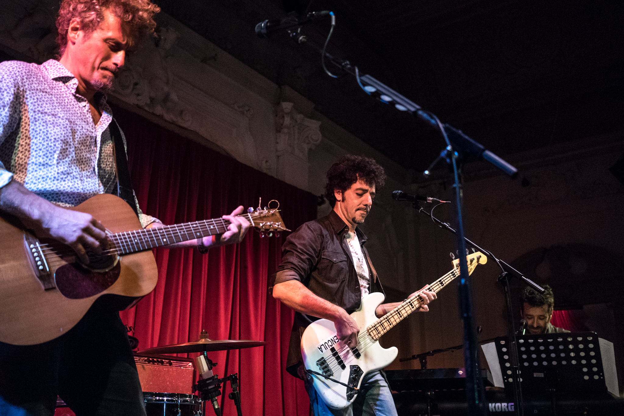 Fabi Silvestri Gazzè live at Bush Hall, London 01/10/2014